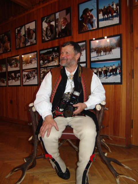 Stanisław Gał